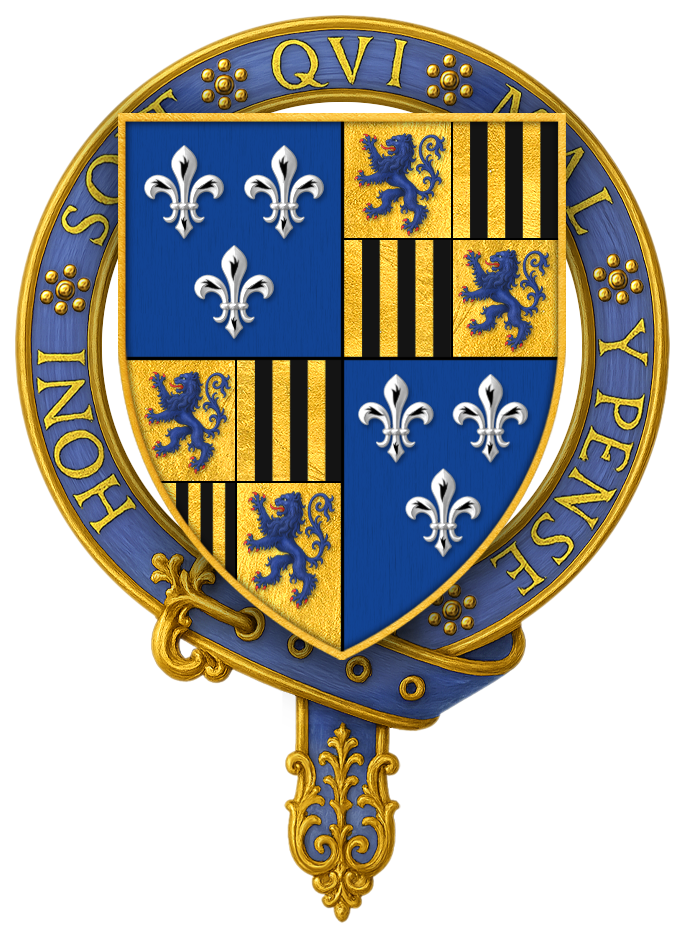 Sir Thomas Burgh, KG HOPE, W. H. St. John, The Stall Plates of the Knights of the Order of the Garter 1348 – 1485: A Series of Ninety Full-Sized Coloured Facsimiles with Descriptive Notes and Historical Introductions, Westminster: Archibald Constable and Company LTD, 1901. “ Plate LXXXVII - Sir Thomas Burgh, Lord Burgh of Gainsborough, K.G. 1483-1496... The shield is quarterly: 1 and 4, azure three fleur-de-lis ermine (for Burgh); 2 and 3, gold a lion azure (for Percy) quartering gold three pales sable (for Strabolgi). ” The Stall plate remains intact within the twentieth stall, on the Prince's side of the chapel.